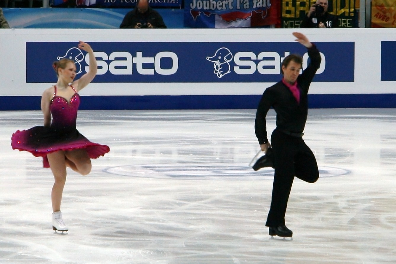 Siobhan Heekin-Canedy and Alexander Shakalov at the 2011 World Figure Skating Championships